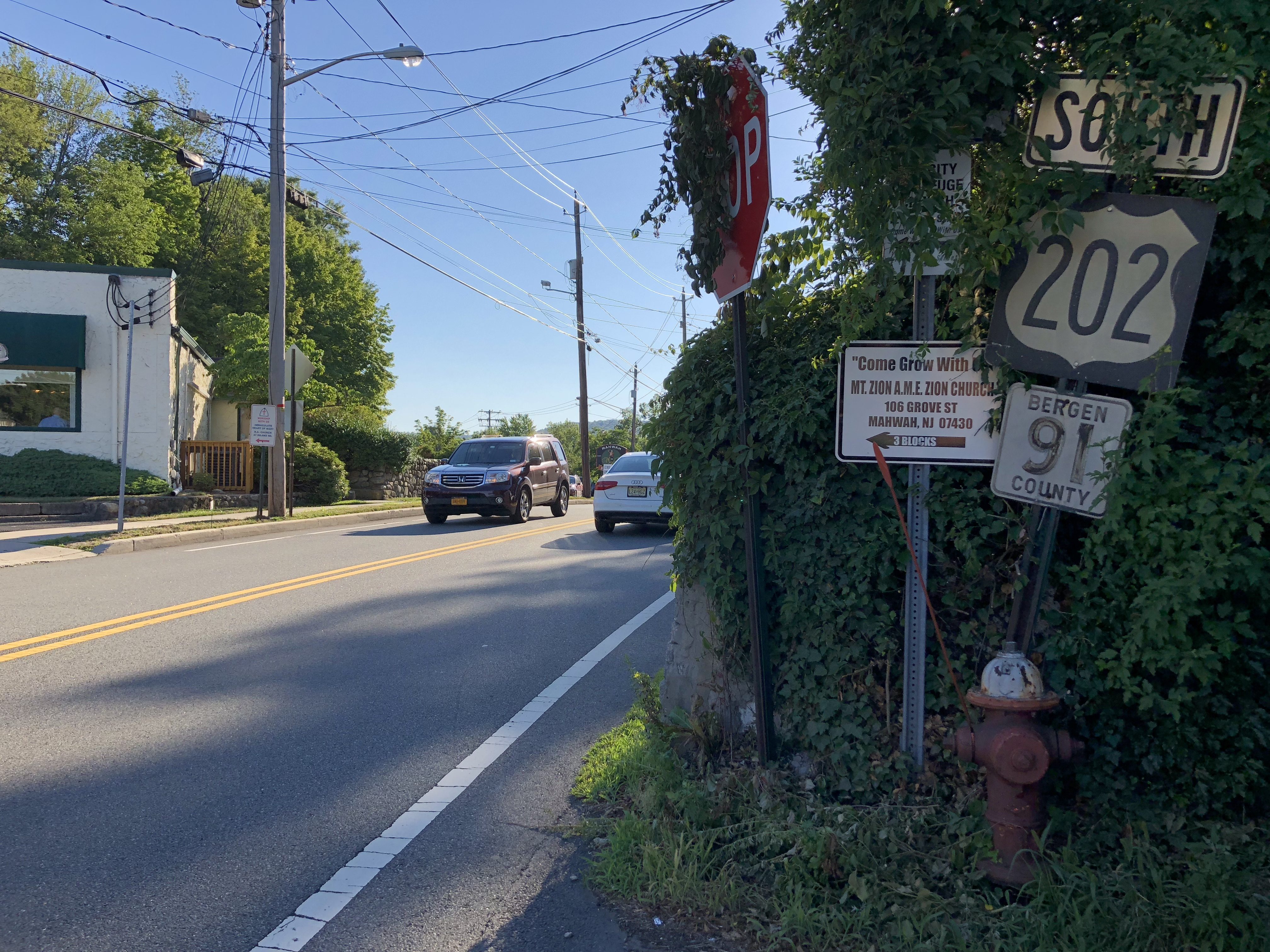 View south along U.S. Route 202 and Bergen County Route 91 (Ramapo Valley Road) at Island Road in Mahwah Township, Bergen County, New Jersey